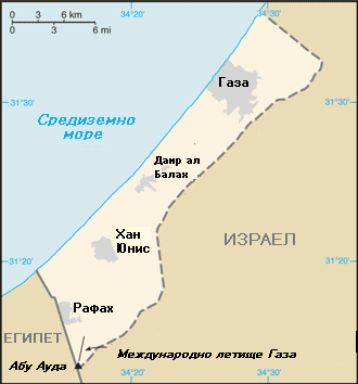 Bulgarian version of a map of the Gaza Strip